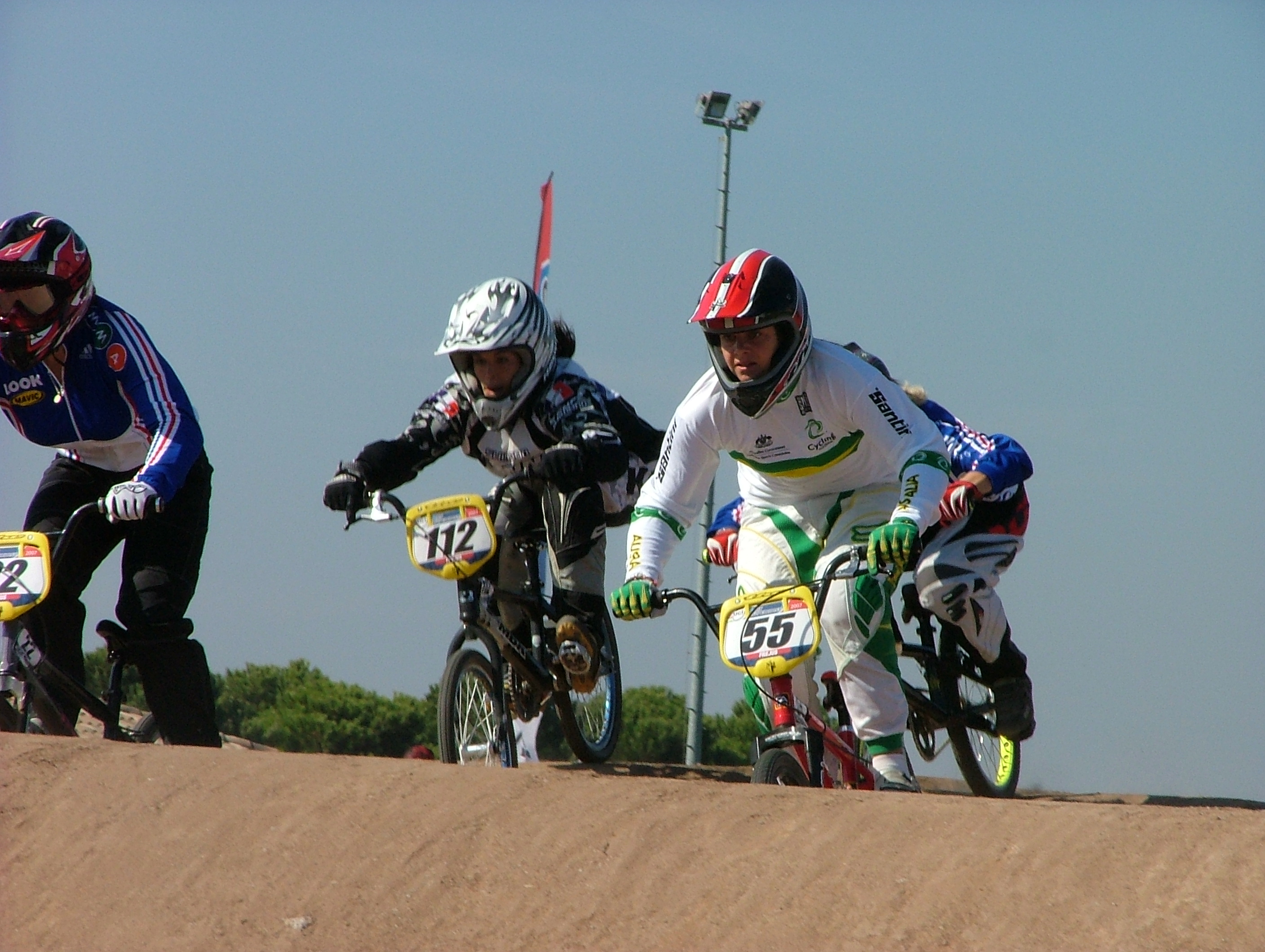 22 Laëtitia Le Corguillé (Francia) 112 Aurelia Don (Francia) 55 Nicole Callisto (Australia)